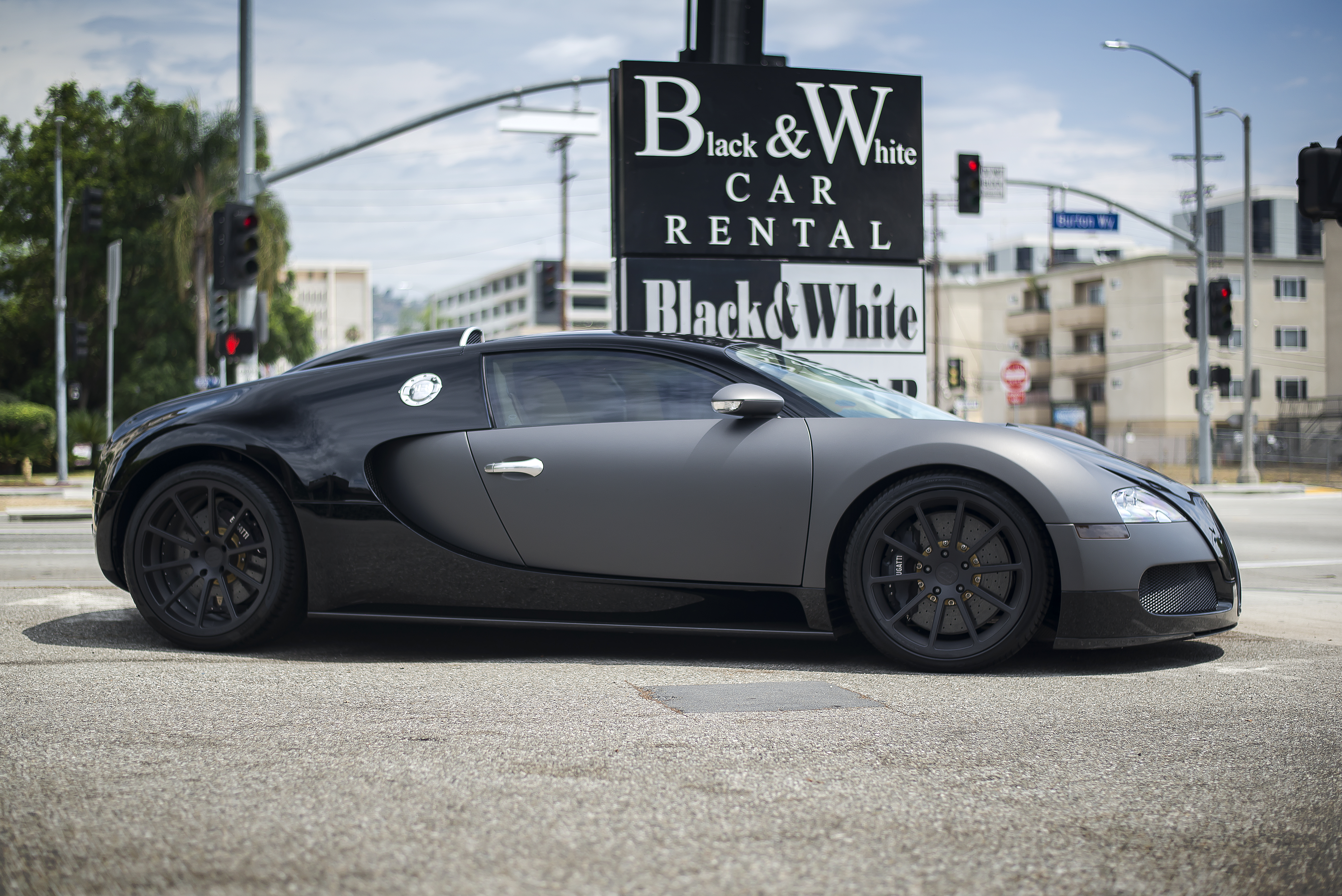 Scott Disick's (some dude who's famous for banging a woman who's family is famous for banging a famous person... wait what?) old Bugatti Veyron.